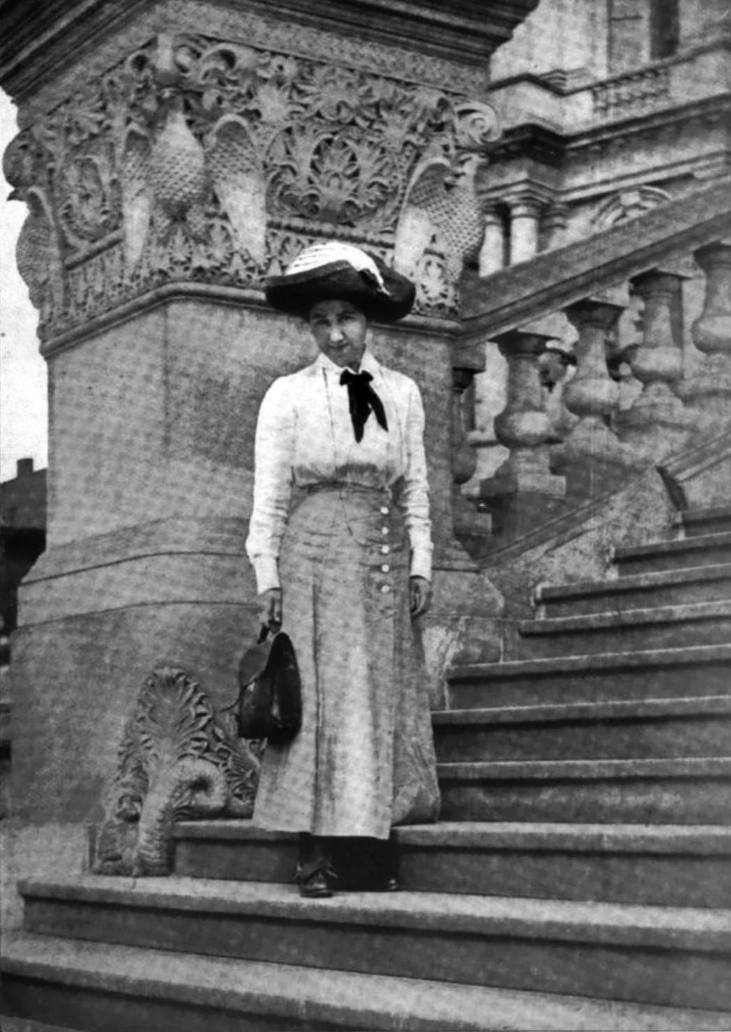 1912 photograph of Agnes Nestor.